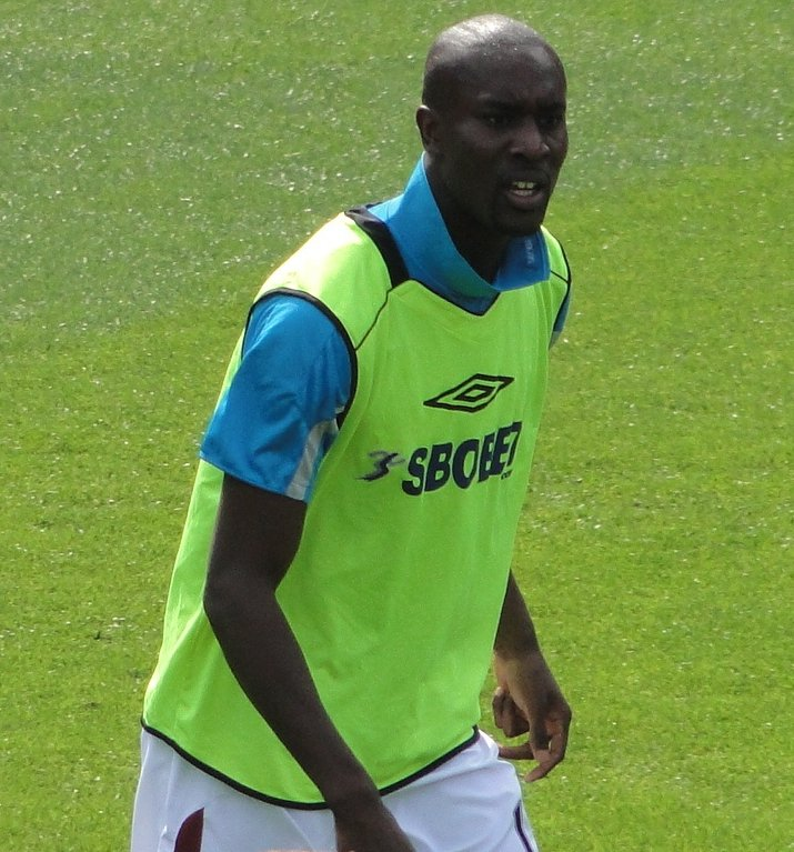 Carlton Cole before West Ham's game v Wigan, April 2010, Upton Park, London.